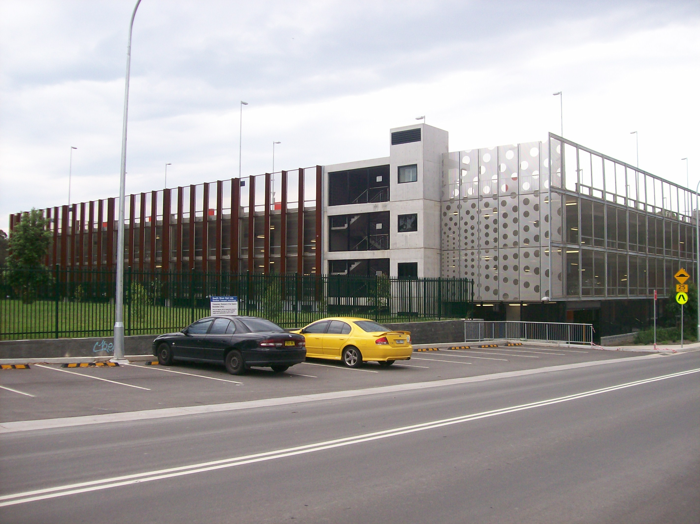 Glenfield railway station carpark from south